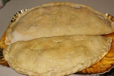 Typical Sicilian food